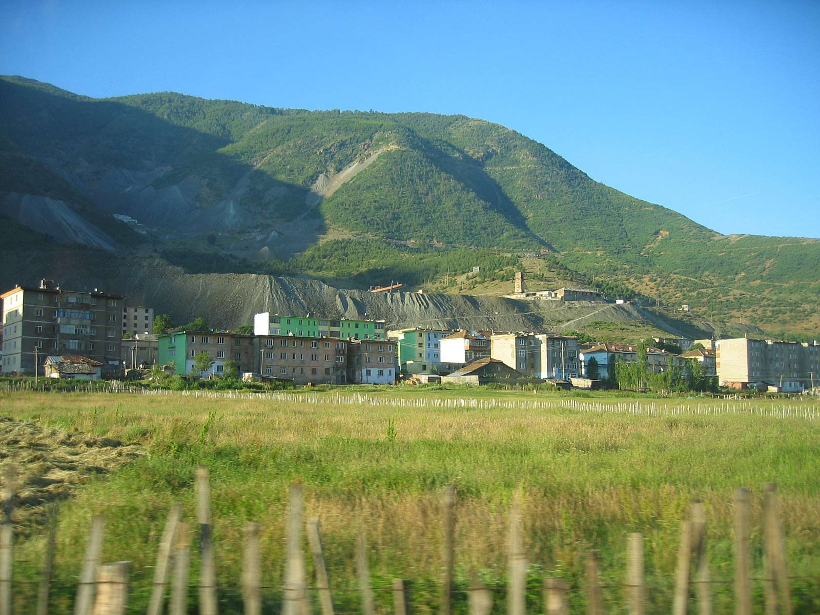 Parts of the town of Bulqizë and its chrome mine in Eastern Albania Autor: Selber aufgenommen im Sommer 2005